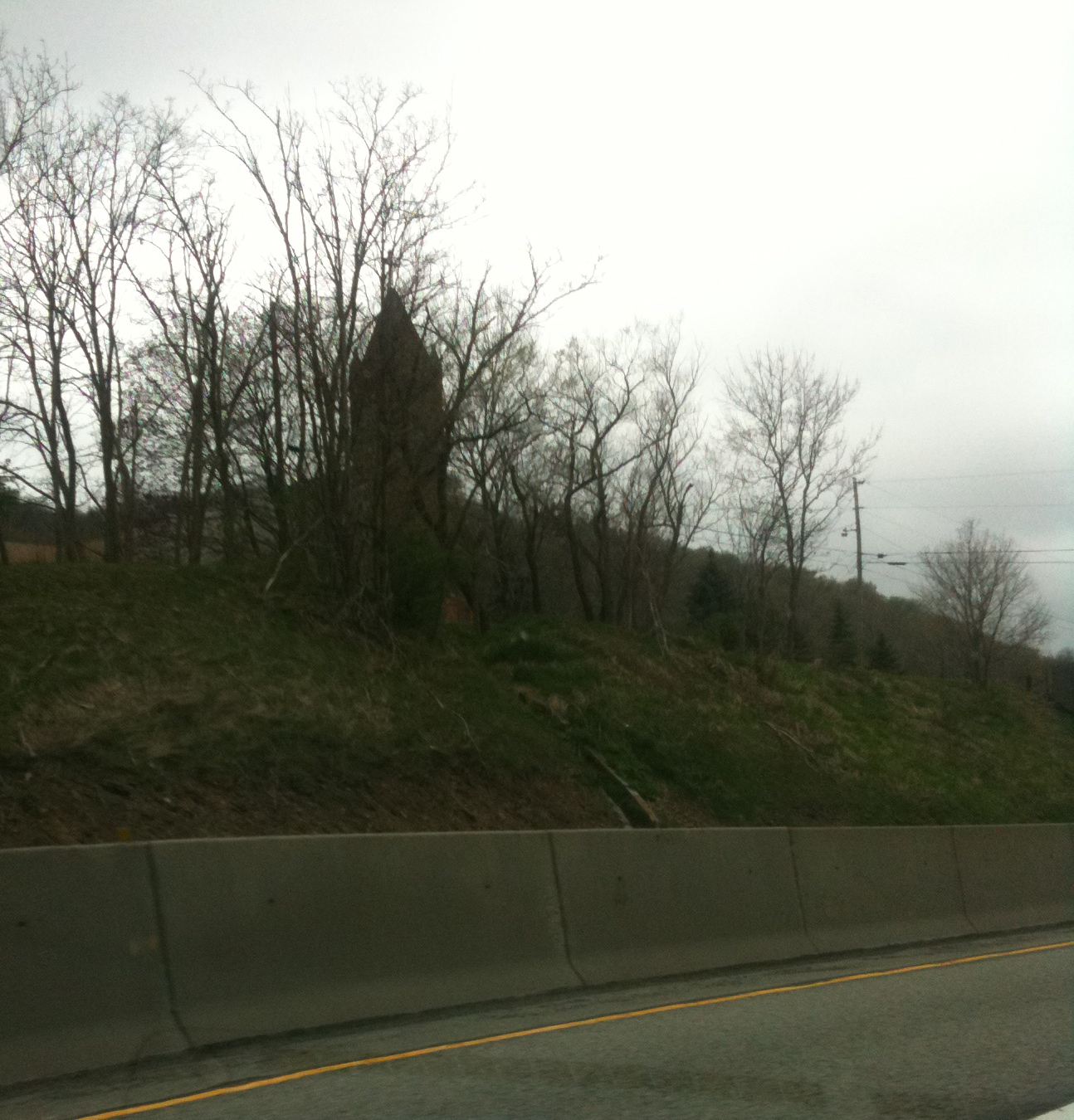 St. John's Church next to the Pennsylvania Turnpike in New Baltimore, Pennsylvania